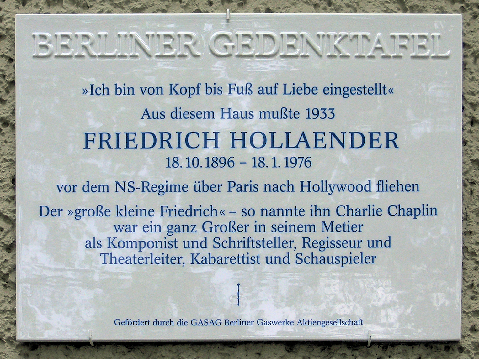 Berlin memorial plaque, Friedrich Hollaender, Cicerostraße 14, Berlin-Halensee, Germany